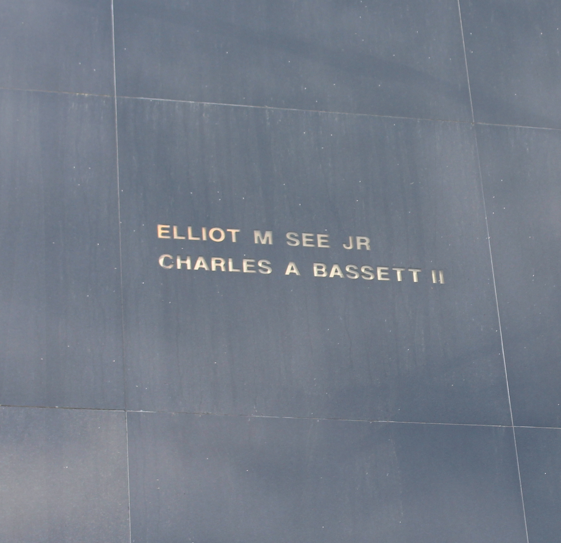 Space Mirror Memorial, Kennedy Space Center, Brevard County, Florida